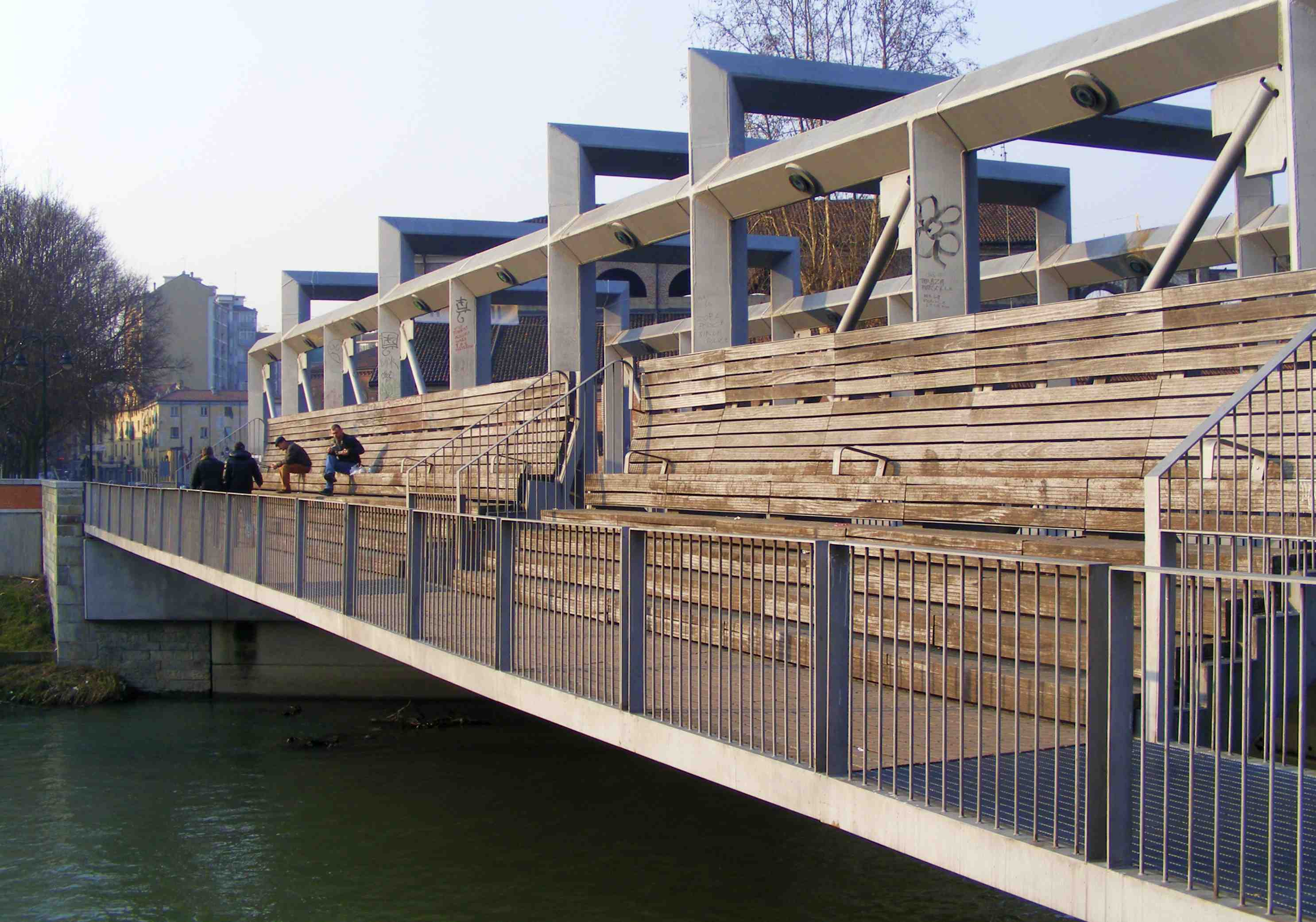 Carpanini bridge on Dora Riparia (Turin, Italy)